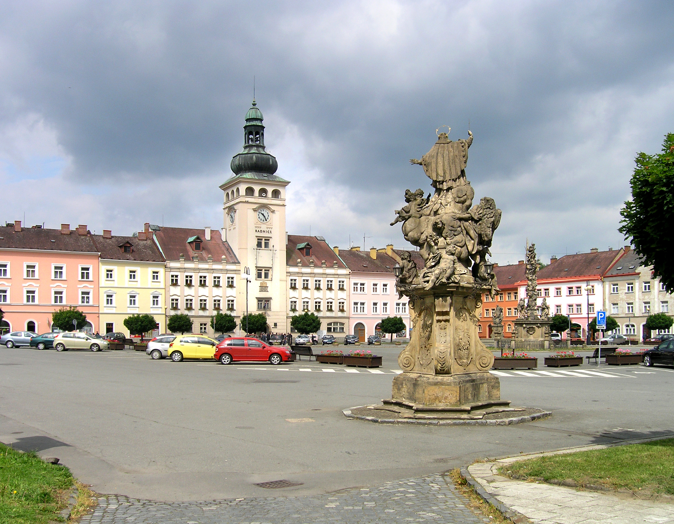 Komenský square in Fulnek, Czech Republic